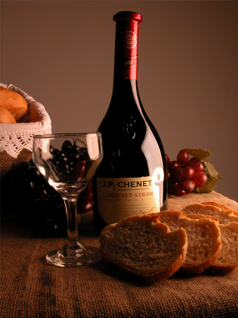 J. P Chenet French wine, a popular UK grocery store brand, in a photographic collage with grapes and bread.